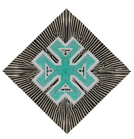 Star of the Order of Ferdinand I Rumania